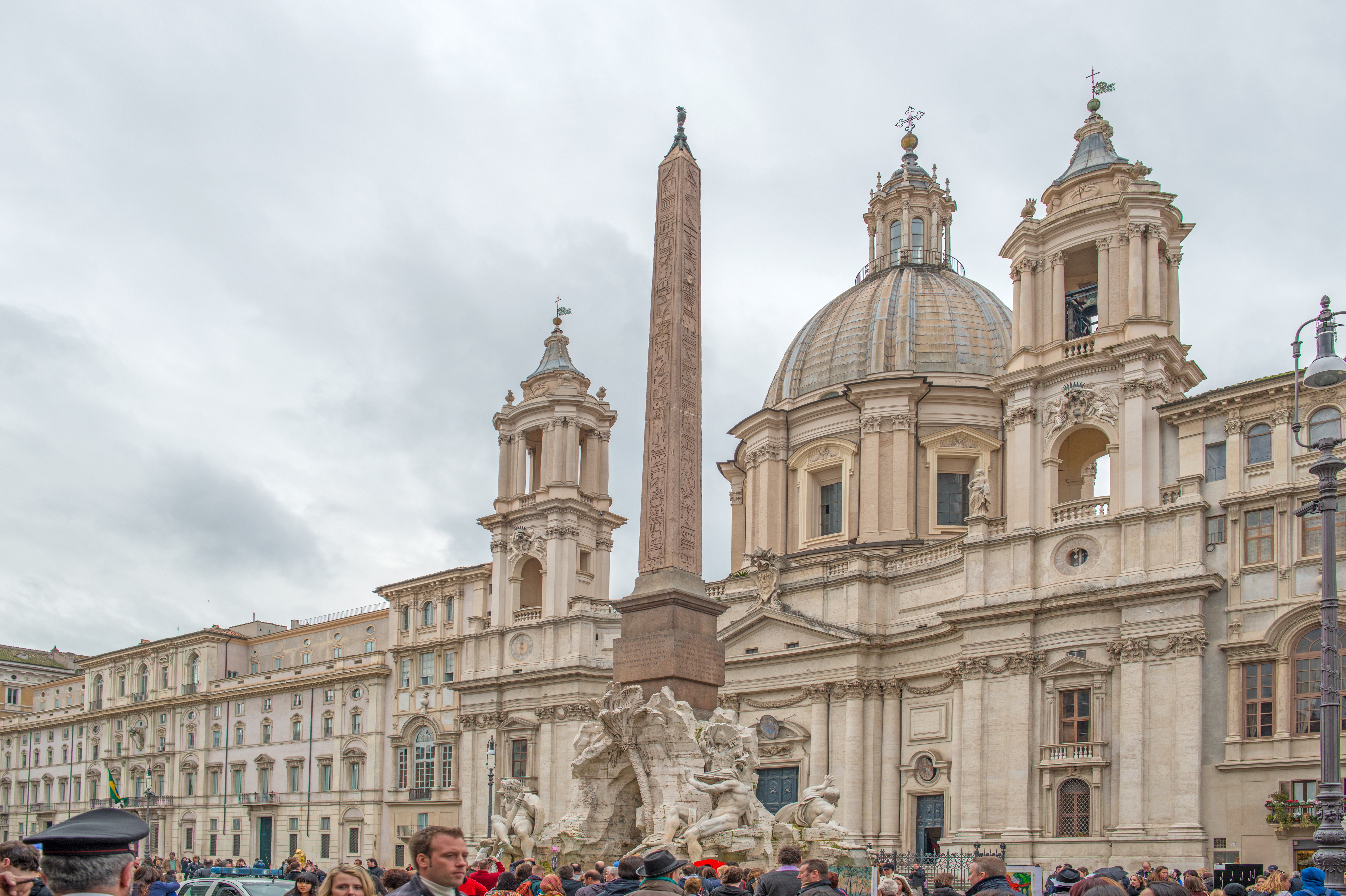 Piazza Navona Rome Italy February 2013